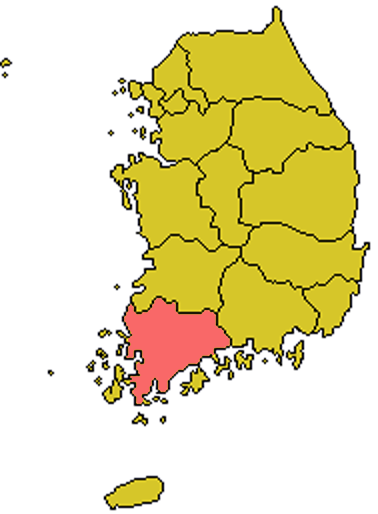 Roman catholic Archdiocese of Gwangju